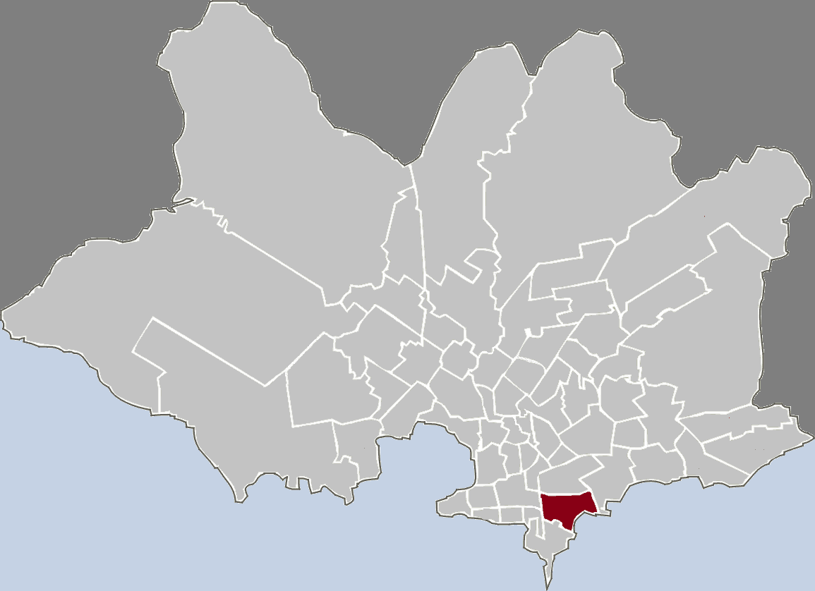 Map highlighting the given barrio in Montevideo.